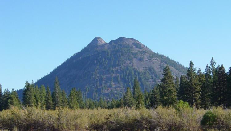 Photograph by Daniel Mayer. Taken in October 2003 and released under terms of the GNU FDL